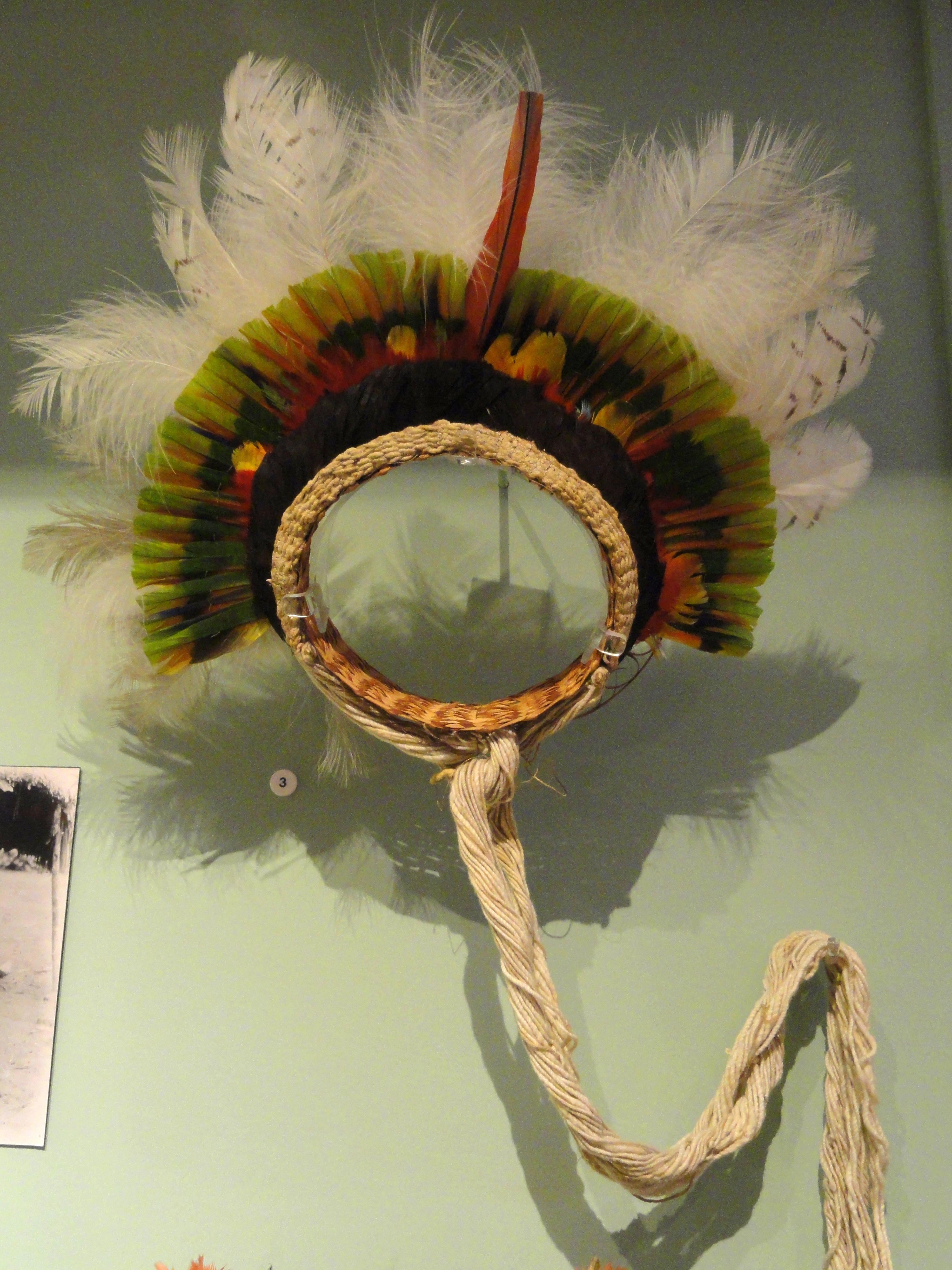 Headdress (dance), Wai-wai people, various feathers. Exhibit from the South American Collection, Peabody Museum, Harvard University, Cambridge, Massachusetts, USA. Photography was permitted without restriction; exhibit is old enough so that it is in the public domain.